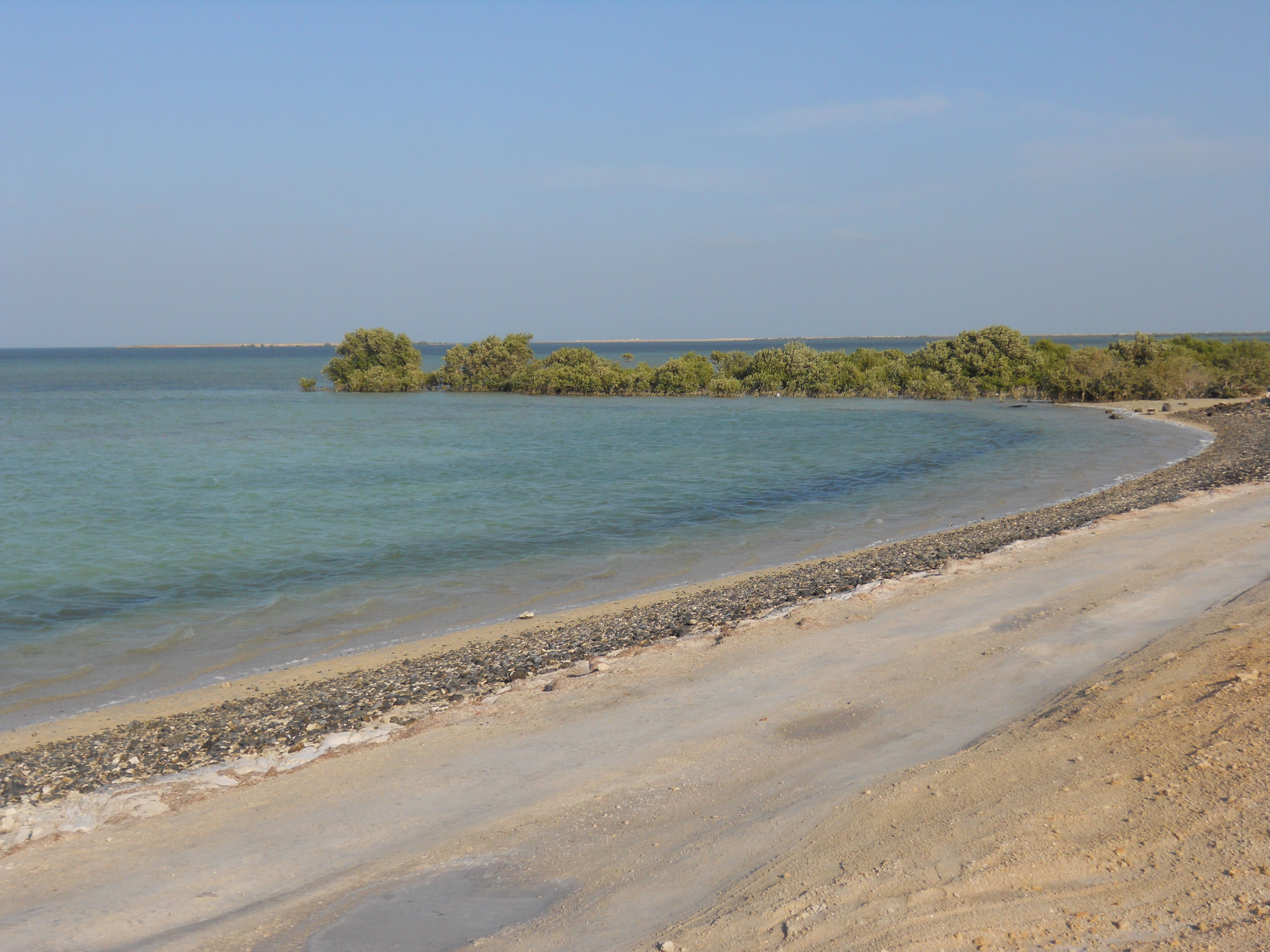 Dakhira Beach, Qatar